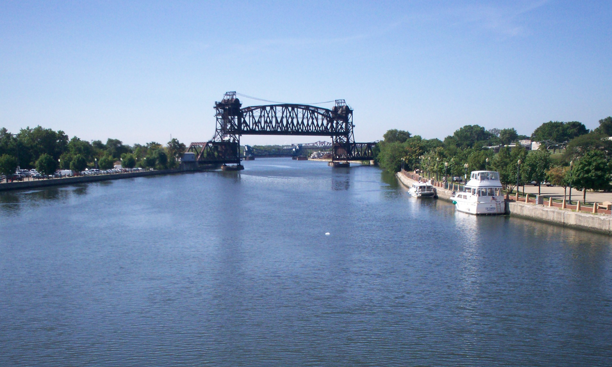 Des Plaines River in Joliet, IL looking south.